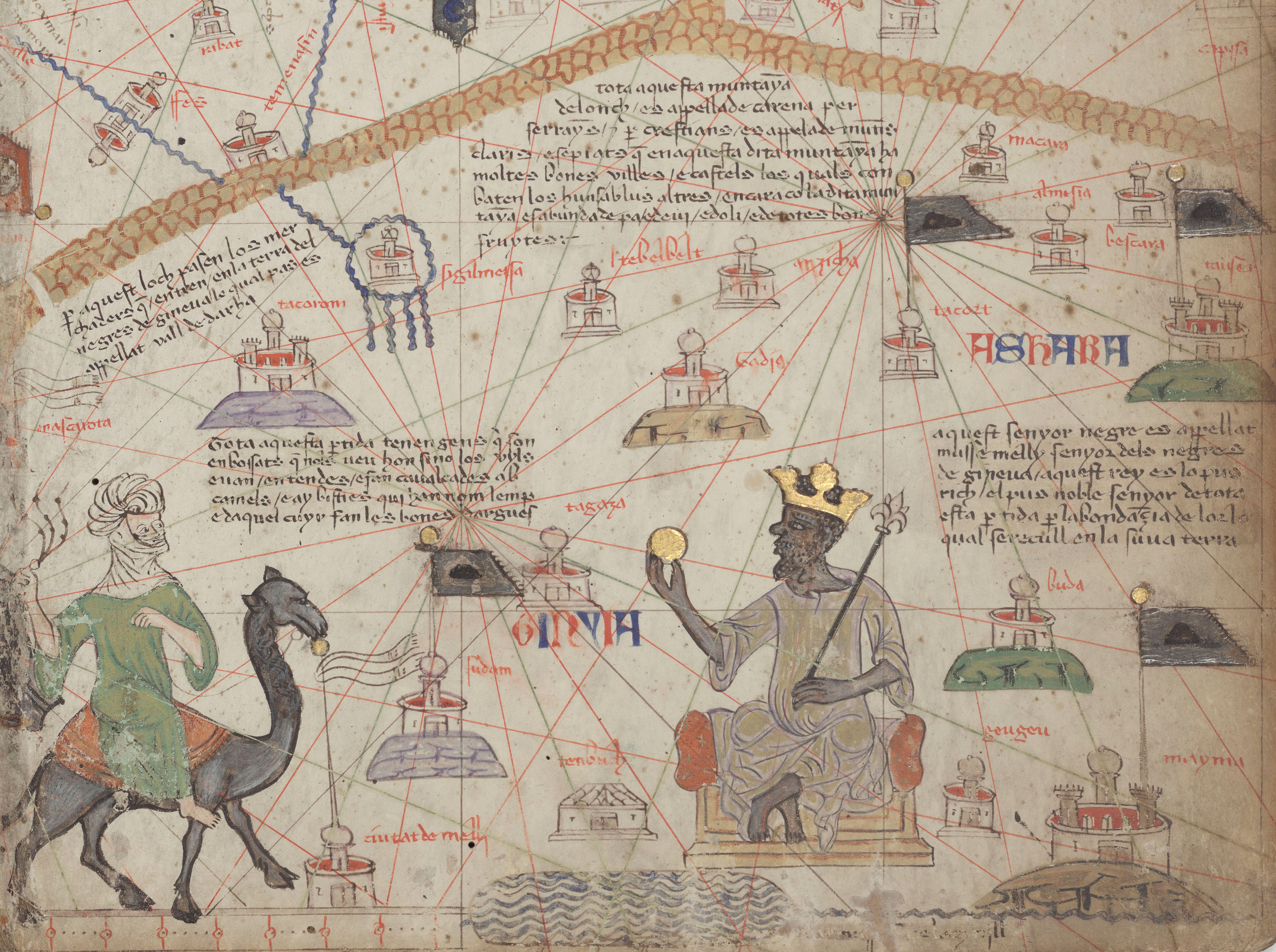 Sheet 6 out of 12. This is the lower portion of the sheet and shows the Western Sahara. The Atlas Mountains are at the top and the River Niger at the bottom. Mansa Musa is shown sitting on a throne and holding a gold coin.